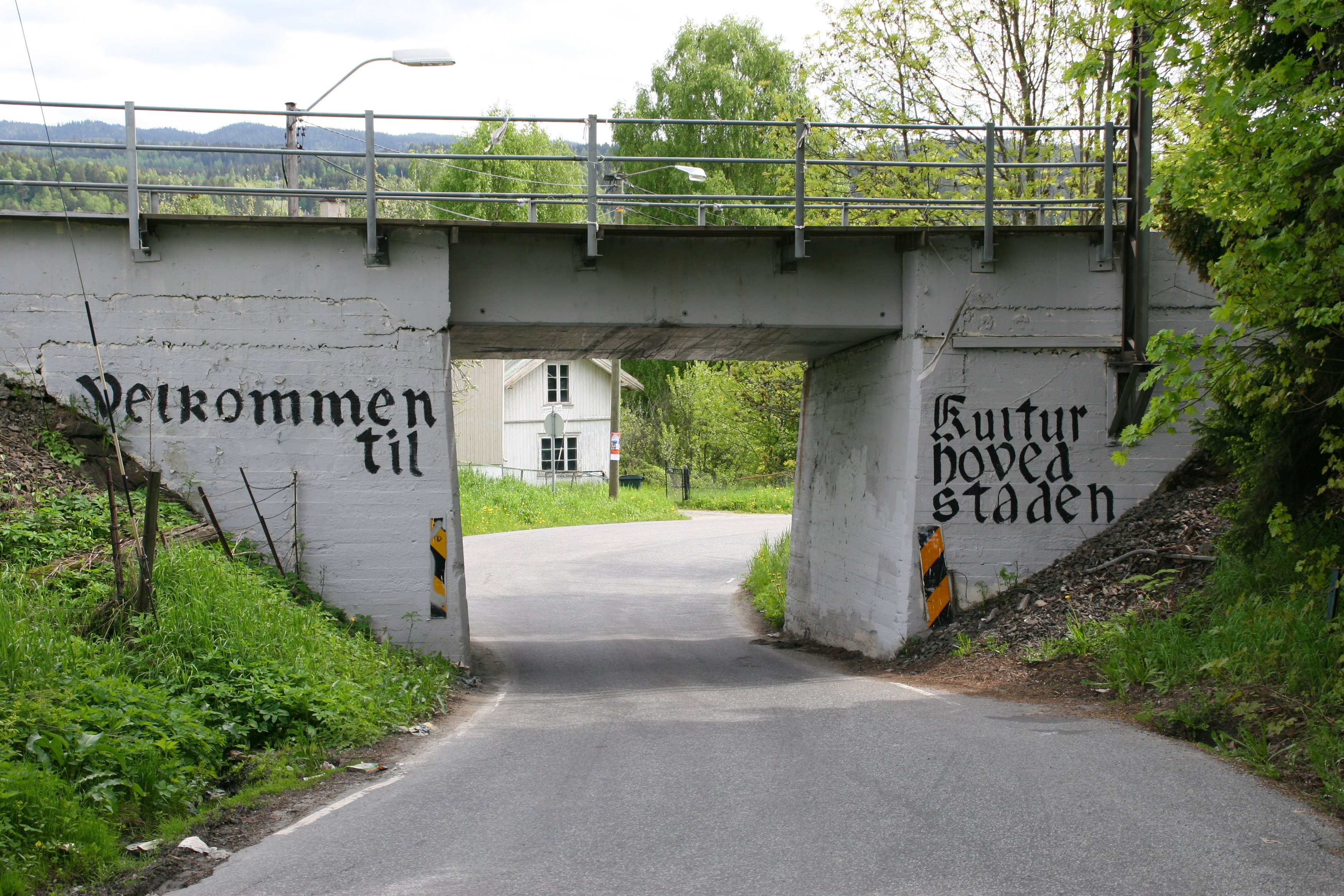 Jutebrua railway viaduct in Vestfossen, Norway